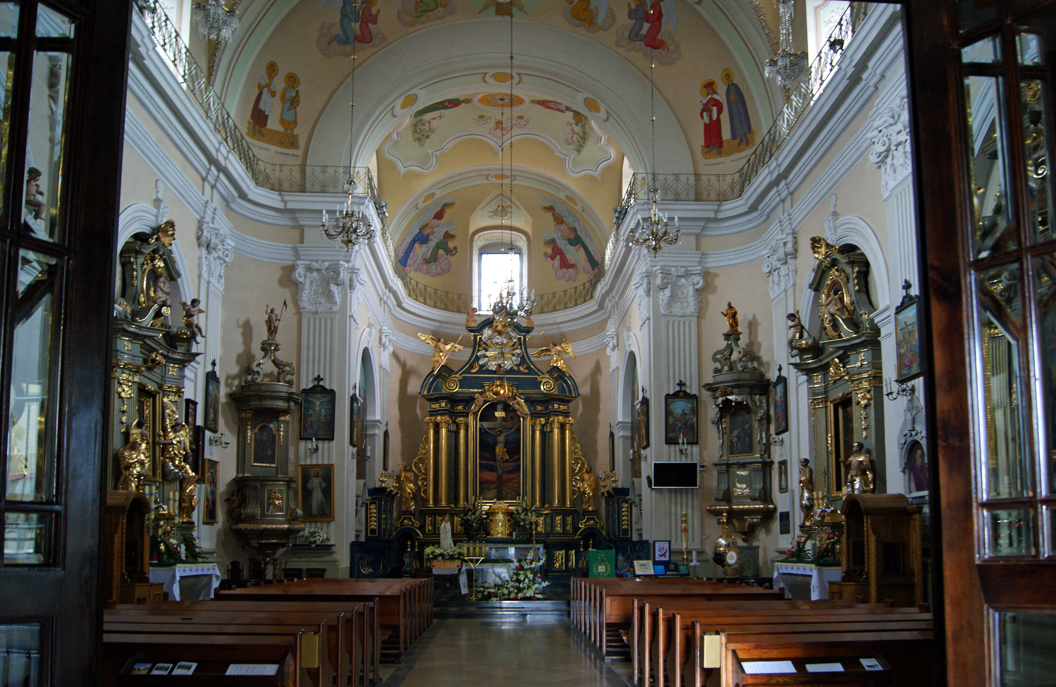 Church of St. Bartholomew the Apostle (interior), Morawica village, Kraków County, Lesser Poland Voivodeship, Poland